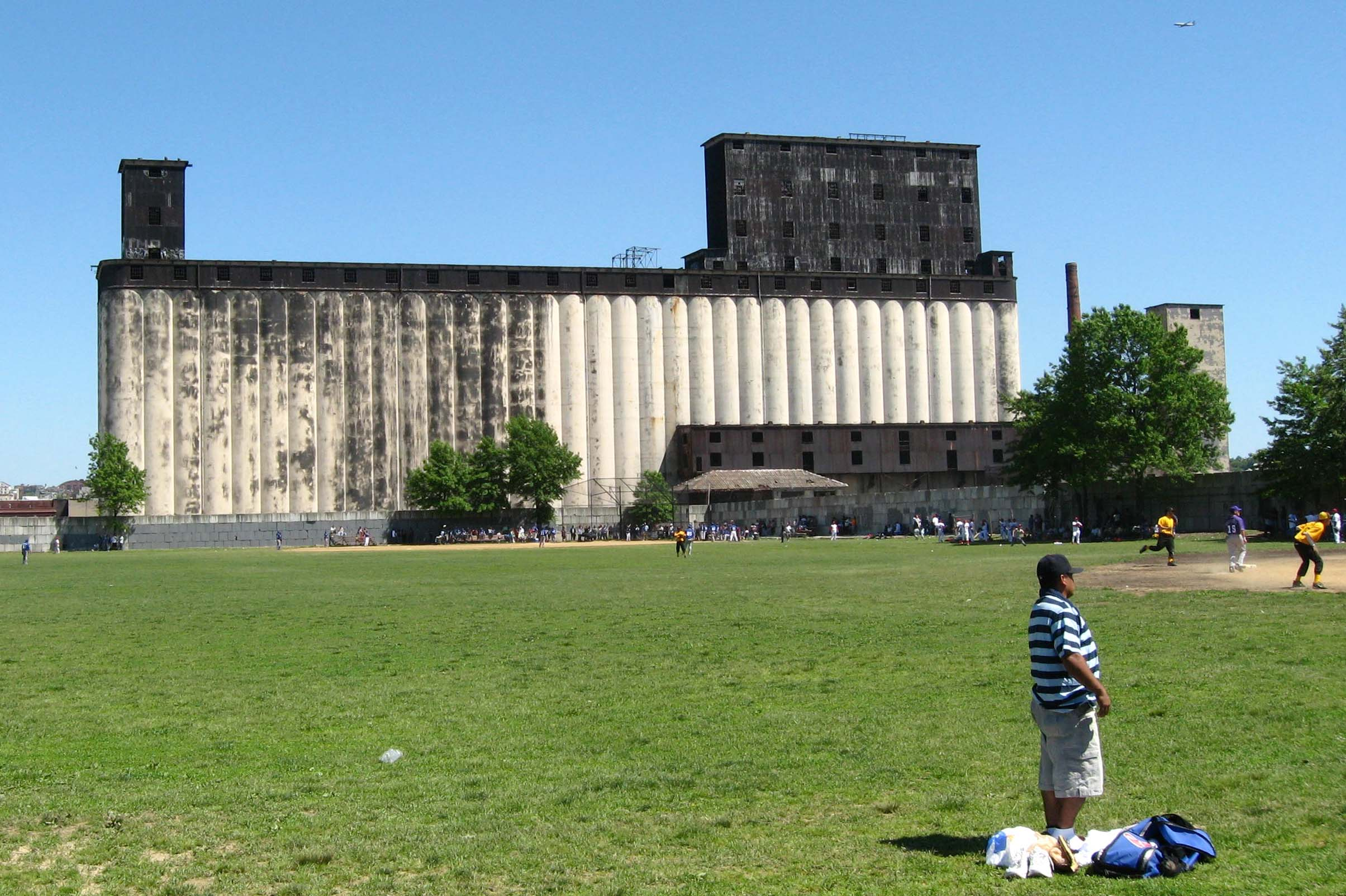 Looking east from Columbia Street at Gowanus Bay Terminal grain elevators on a sunny afternoon in Red Hook, Brooklyn